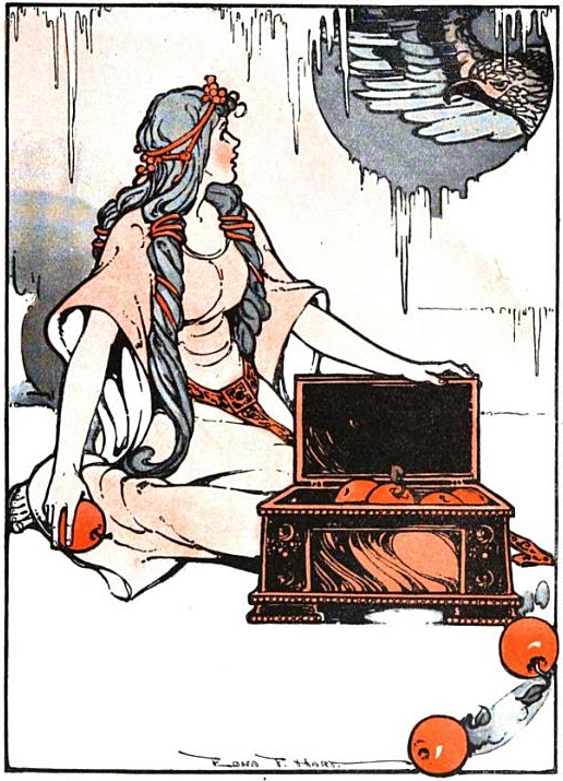 Captioned as "There sat Idun with her beautiful hair falling over her shoulders". The goddess Iðunn, hand on her eski (a small chest), surrounded by apples. Þjazi, in the form of an eagle, appears in the corner of the screen.